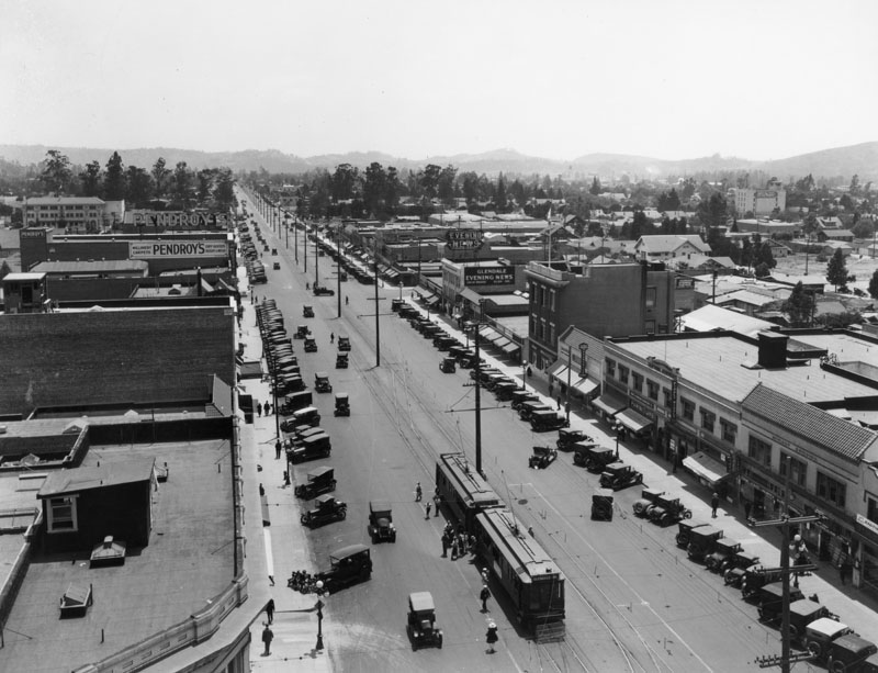 View as seen from the rooftop of a building overlooks the business area on Brand, in Glendale. The train, "Glendale line" stops to pick-up and drop off passengers.